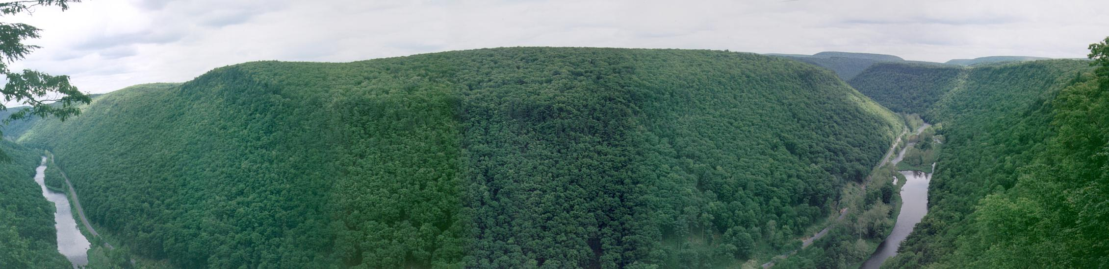 Pine Creek Gorge Panorama, taken from West Rim Trail in Tioga County, Pennsylvania, USA. View is of the "Grand Canyon of Pennsylvania" looking south, Pine Creek and the rail-trail are visible.